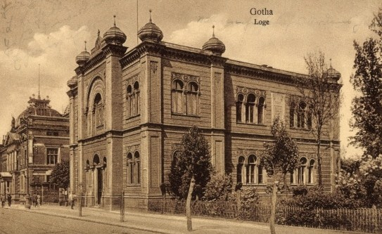 Lodgehouse of St. Johns Lodge "Ernst zum Compaß", Gotha/Germany (1871)